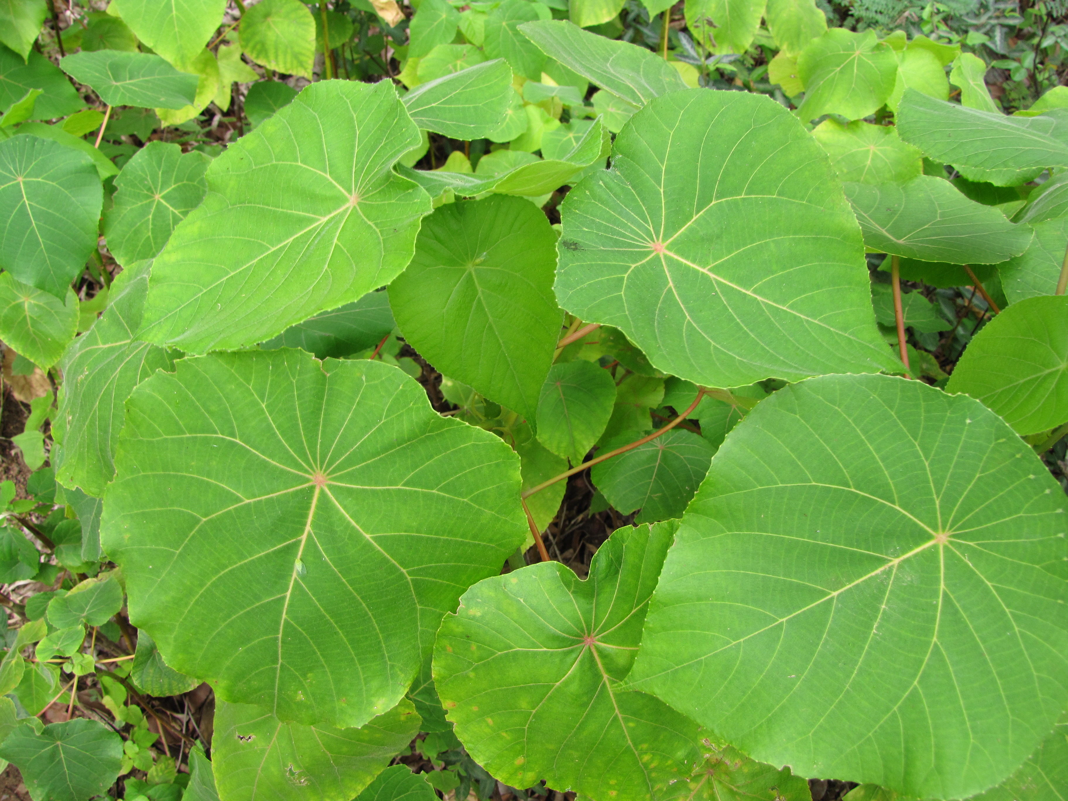 Macaranga tanarius (Parasol leaf tree) Leaves at Waikapu Valley, Maui, Hawaii. February 29, 2012 #120229-2884 Image Use Policy